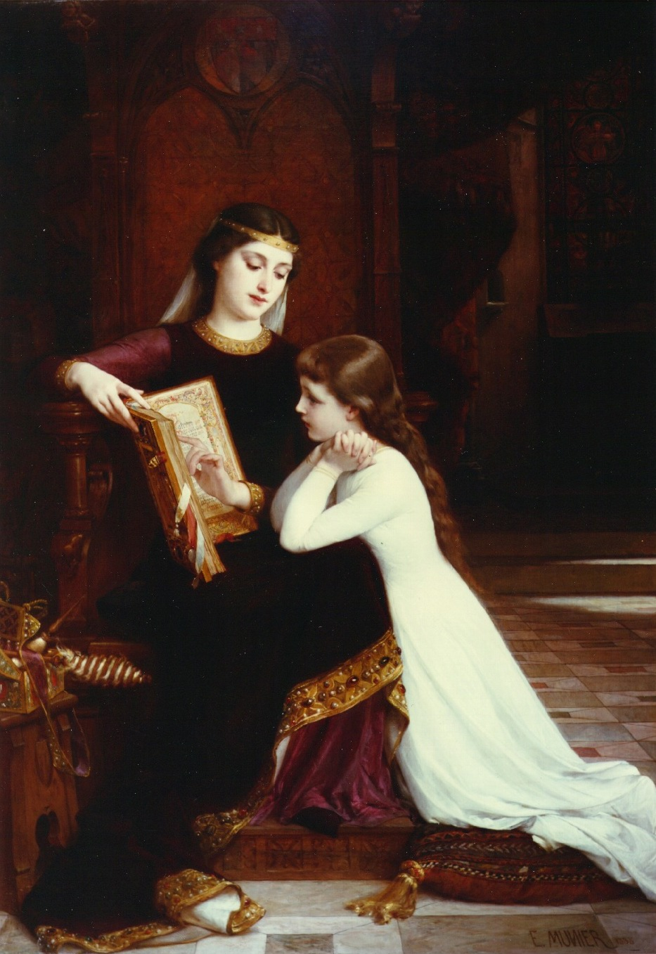 The Reading Lesson